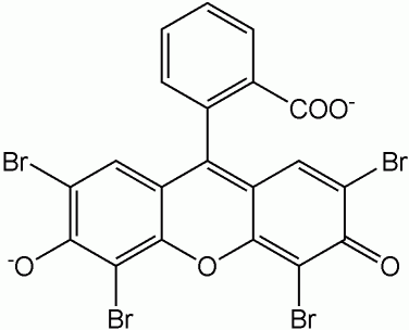 Chemical structure of Eosin Y